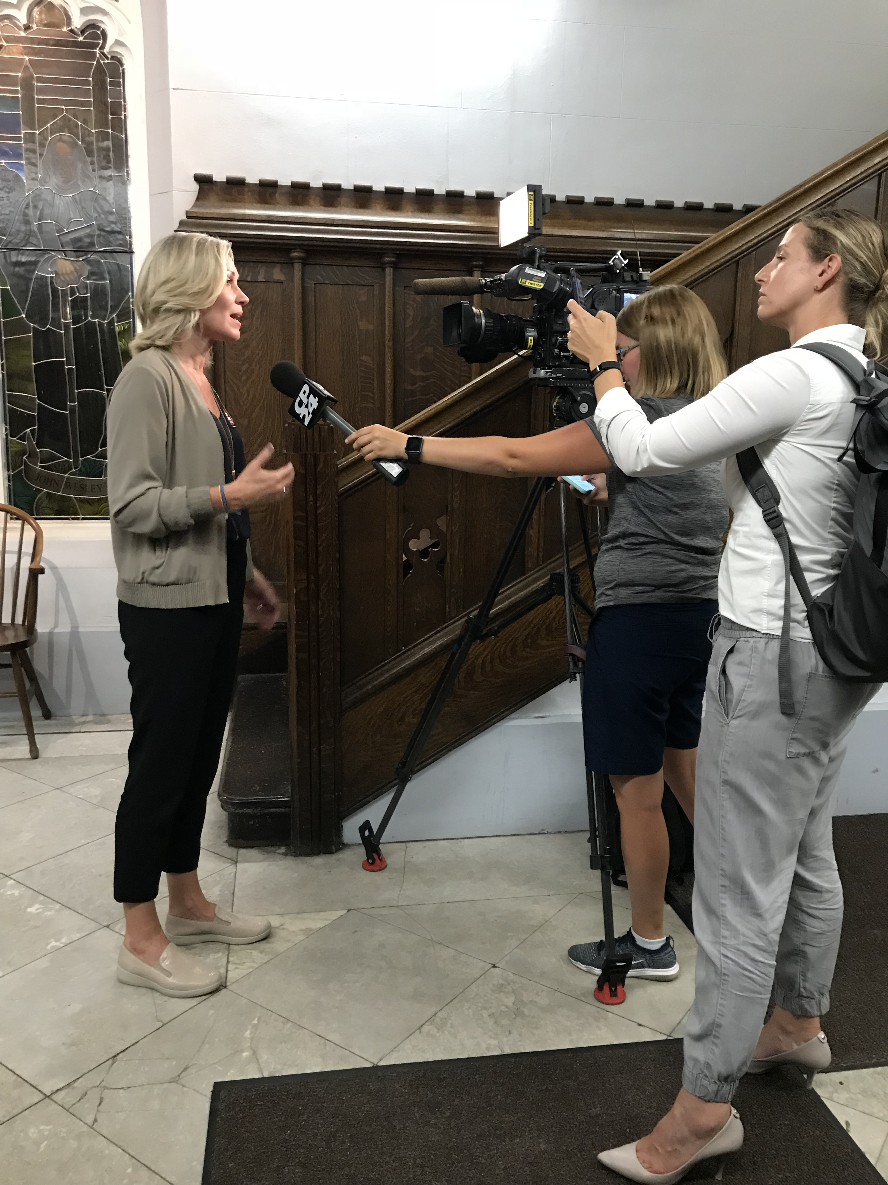 Toronto mayoral candidate gives an interview with CP24 at the Metropolitan United Church following the "Defend Democracy: Hands Off Toronto" event.